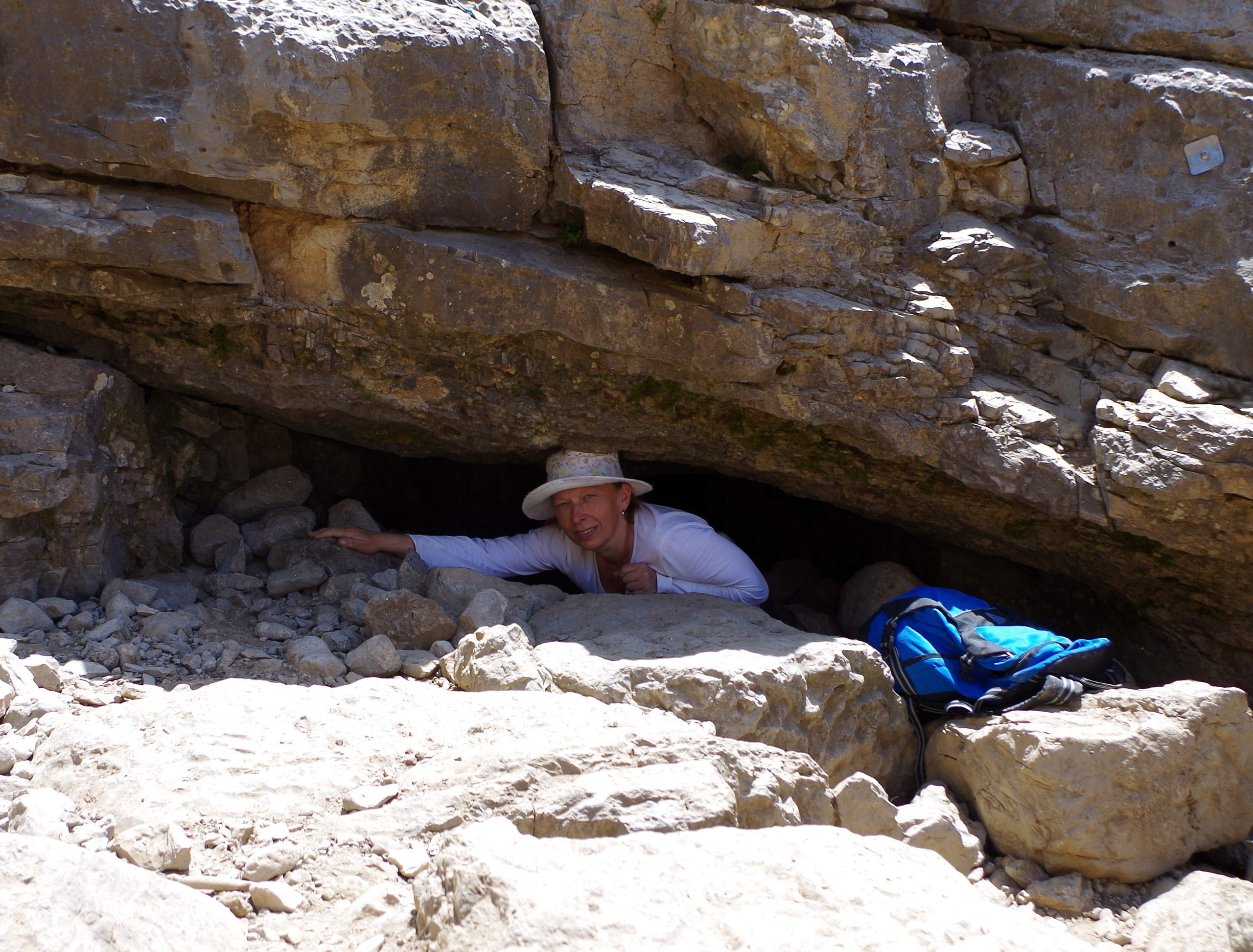 View of the Boybuloq cave entrance from the northeast, perpendicular to the cliff, with Elena Ljubavina. It was taken on August 8, 2017, in the framework of SGS (Sverdlovsk speleo section), ASU (Association of Speleologists of the Urals) speleological expedition. The cave entrance is situated in the Chul-Bair mountain ridge, in the Boysun district of the Surkhandarya region, Uzbekistan, at 2650 m a.s.l. The cave is 1415 m deep and its length is 14800 m (as of 2020).